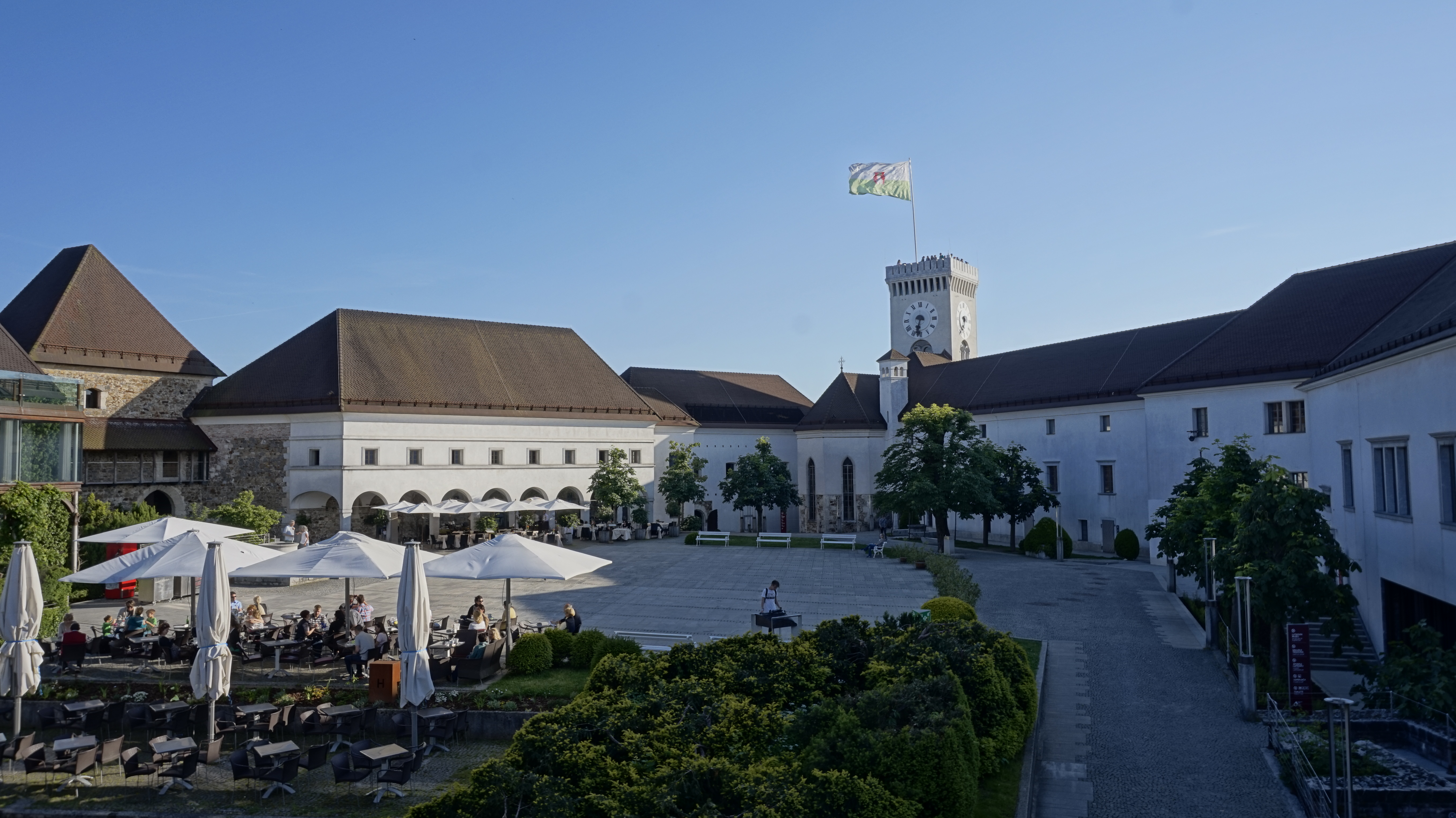 Up on the Castle